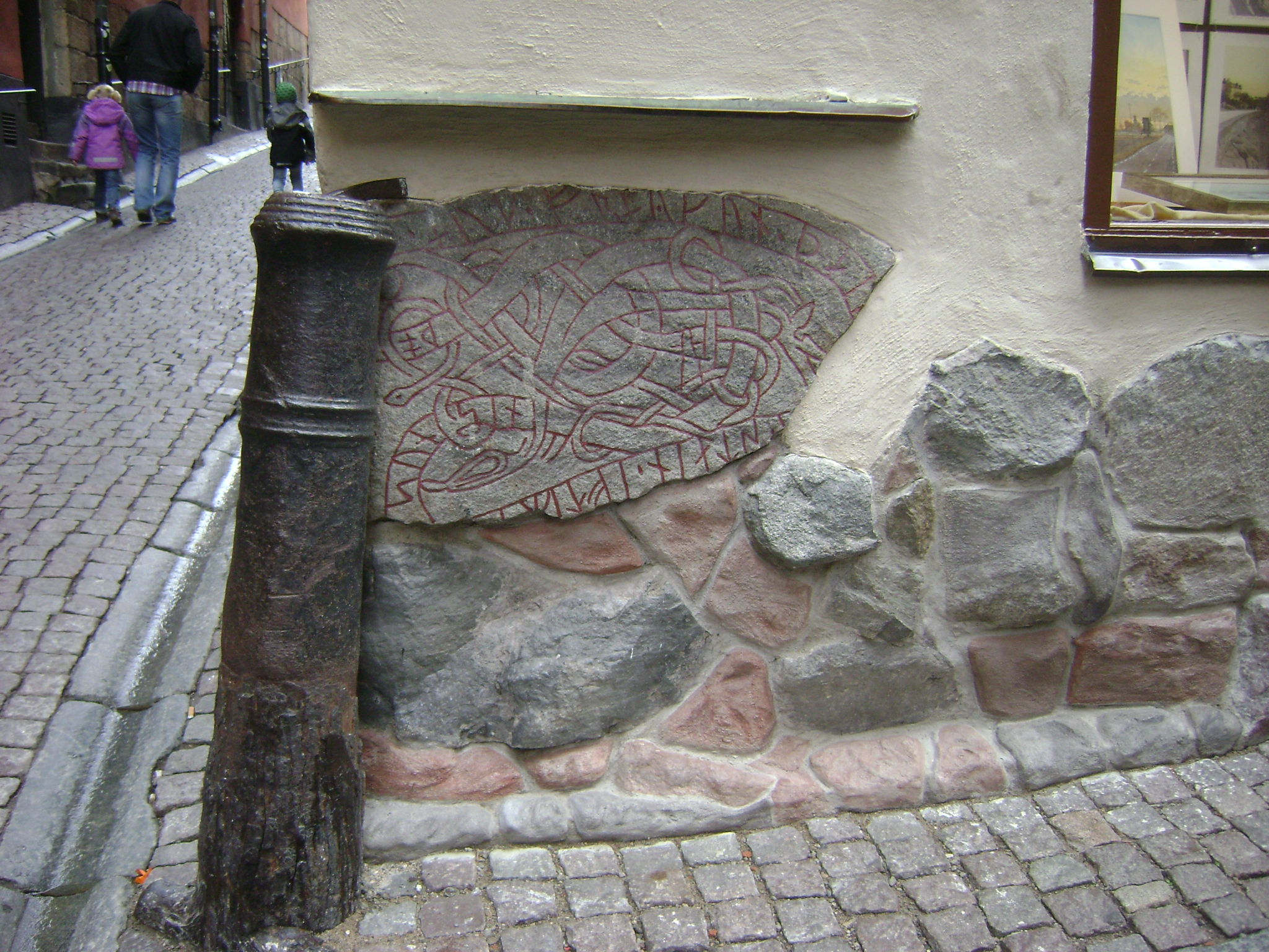 Runestone U 53. Sweden. Stockholm. Old Town.